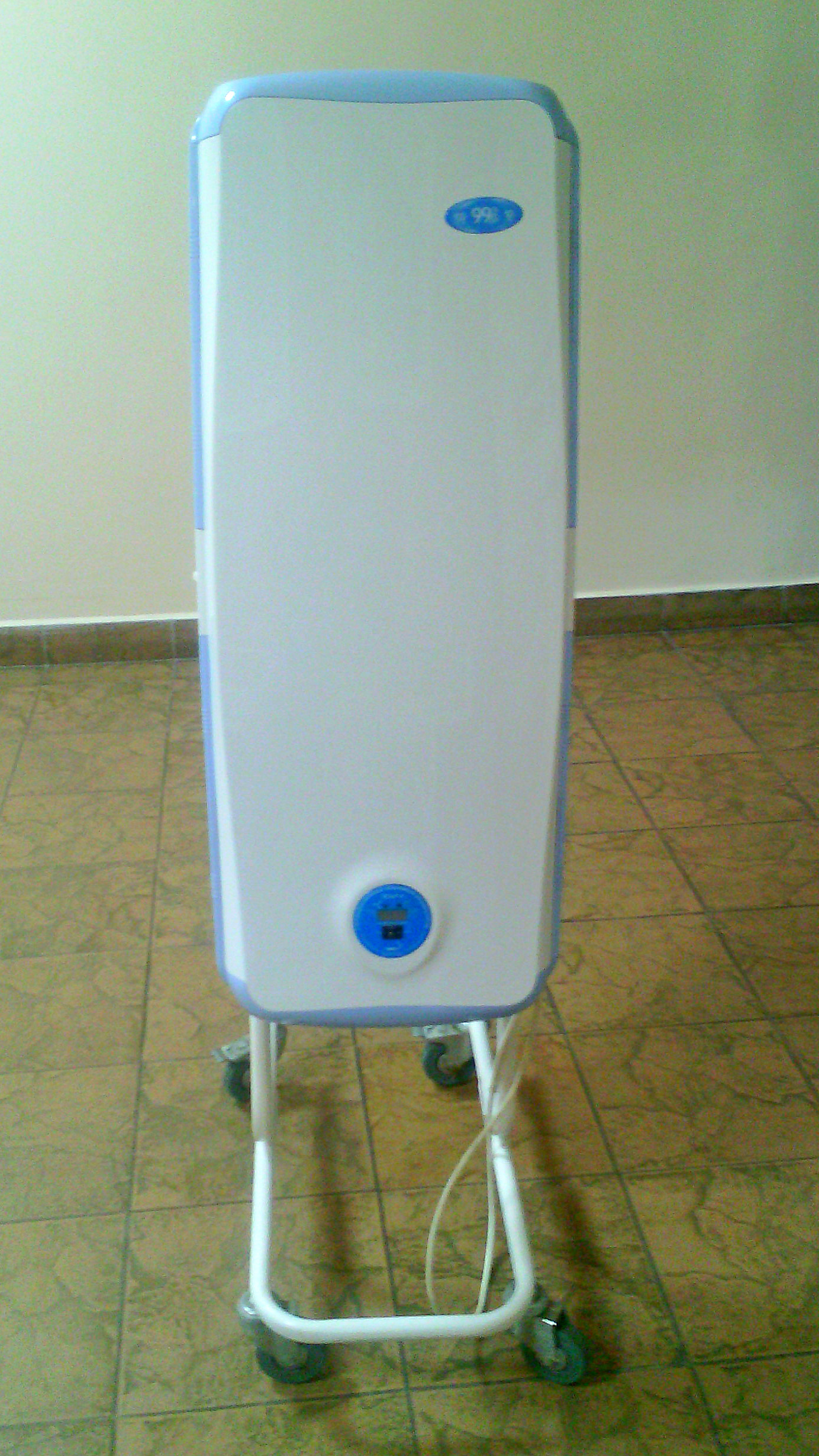 47, Lomonosova Street, Severodvinsk.Hospital.